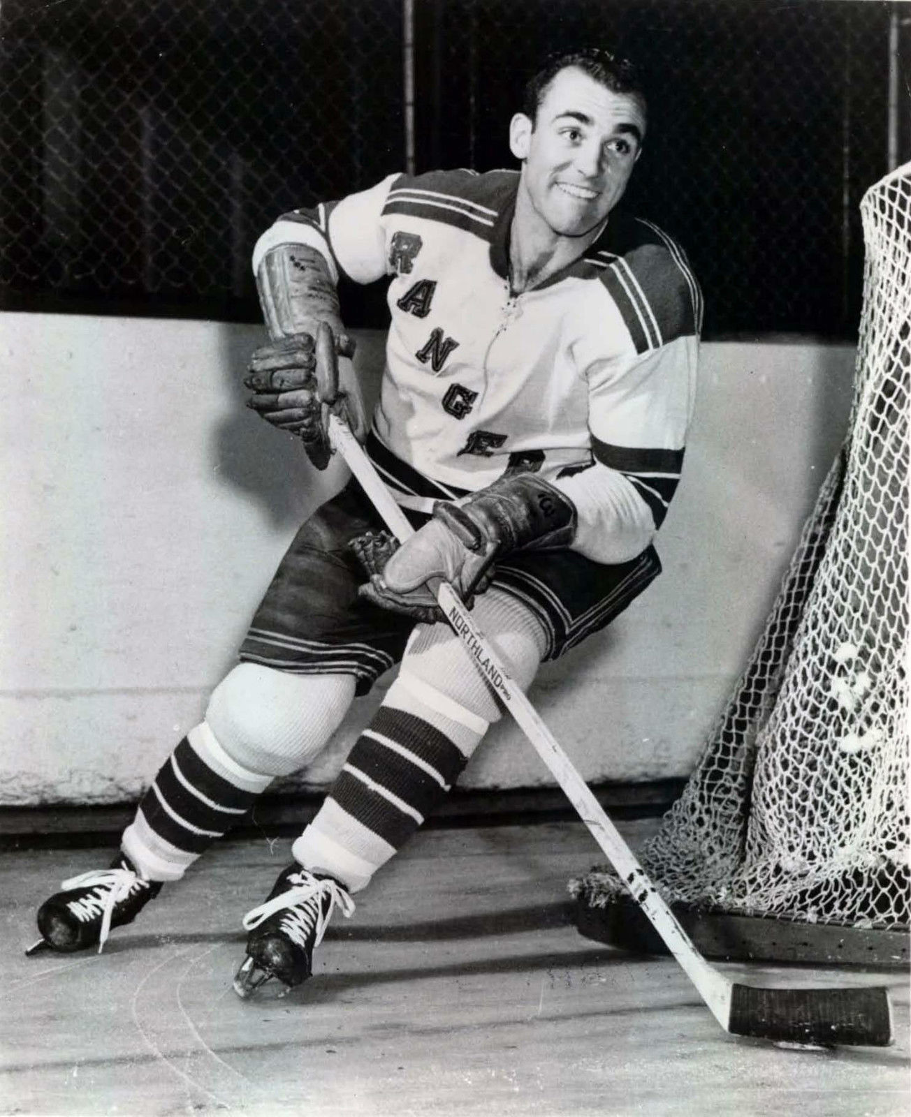 Ice hockey player Harry Howell during his tenure on the NY Rangers.